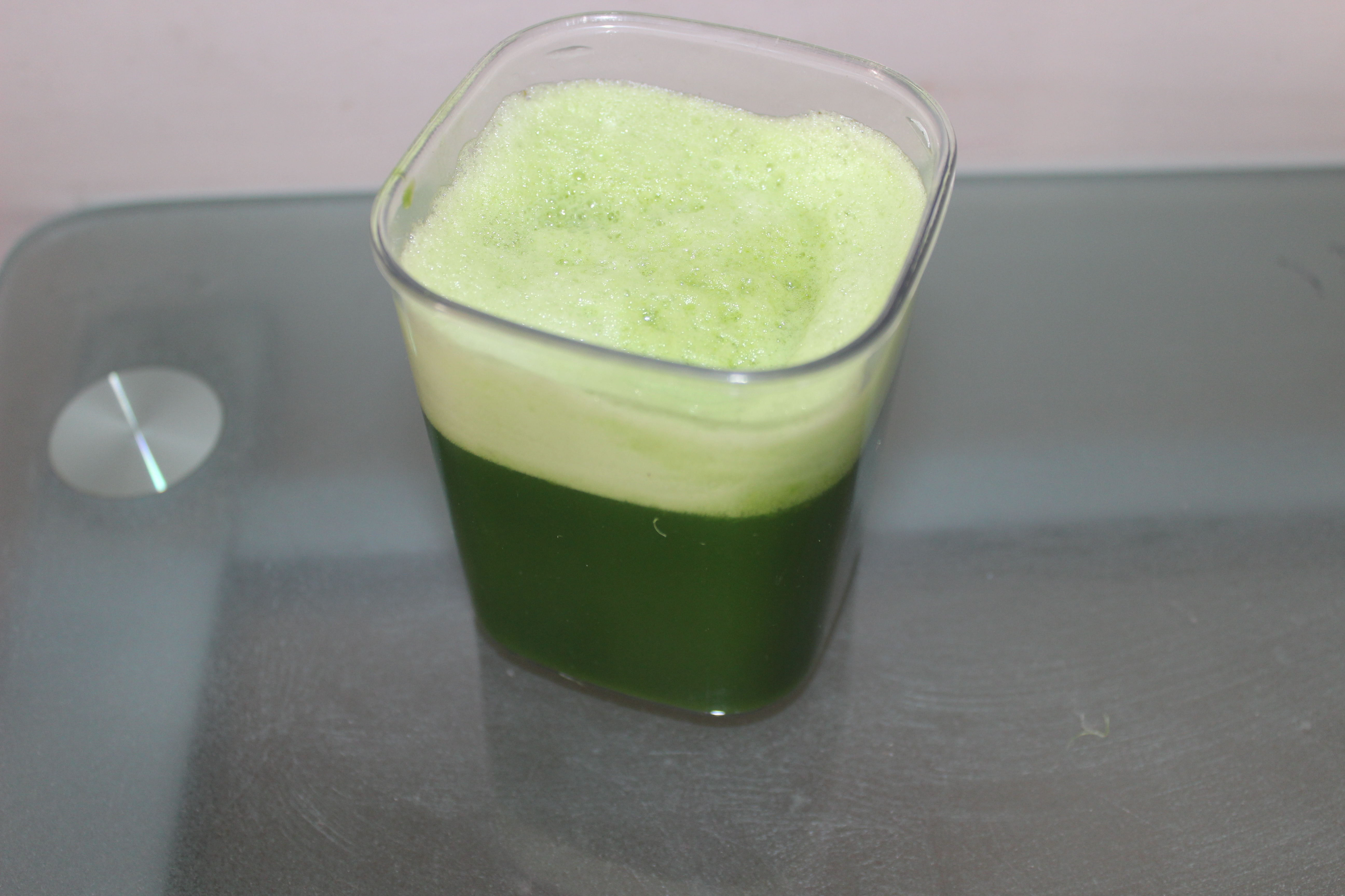 Wheat Grass Juice